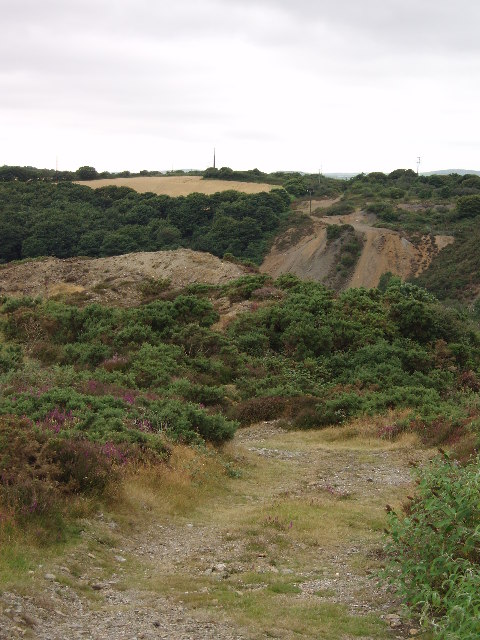 Spoil heaps near Wheal Alfred. Taken from the lane from Gwinear to Trethingey